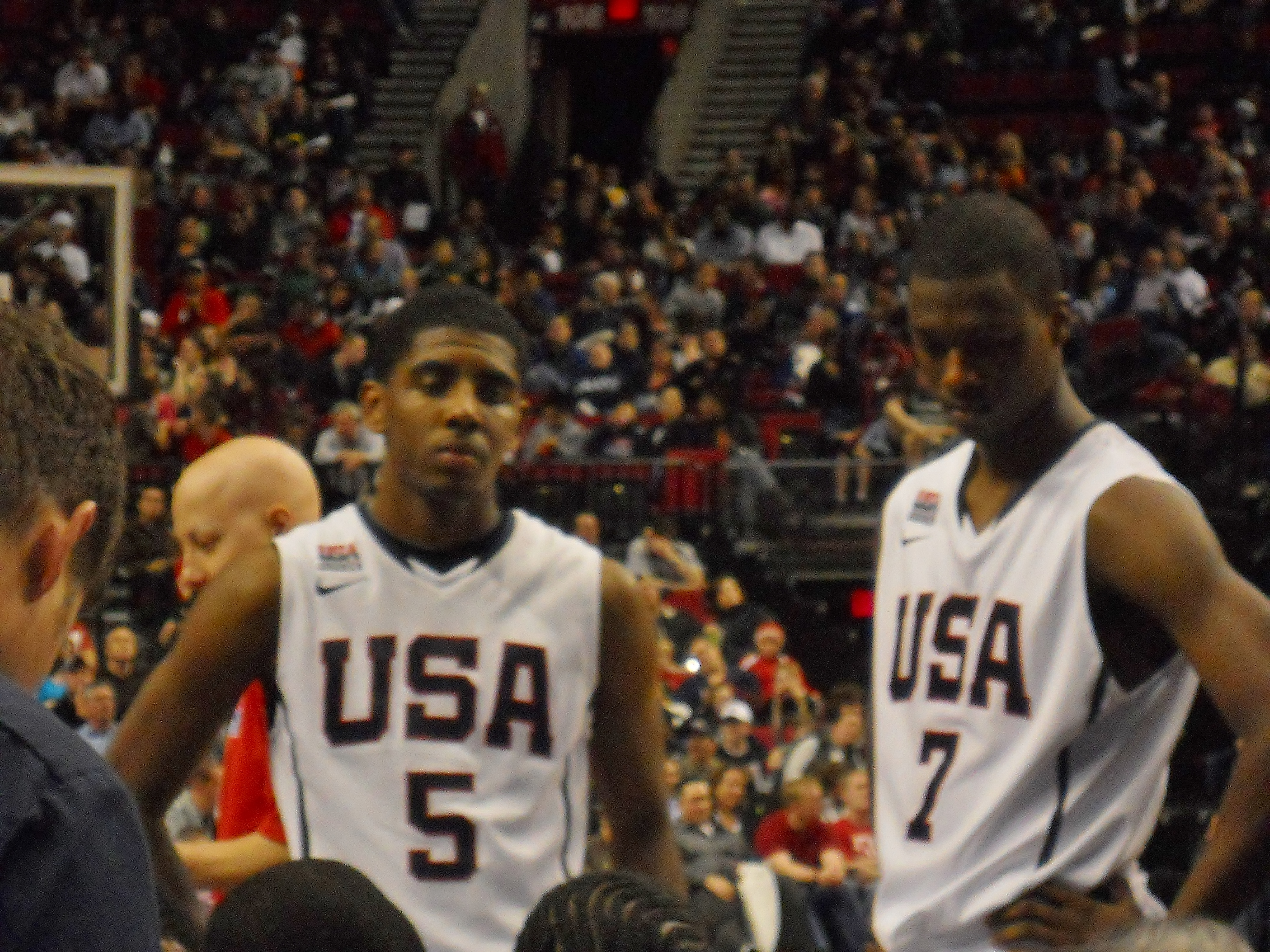 Harrison Barnes and Kyrie Irving at the 2010 Nike Hoop Summit